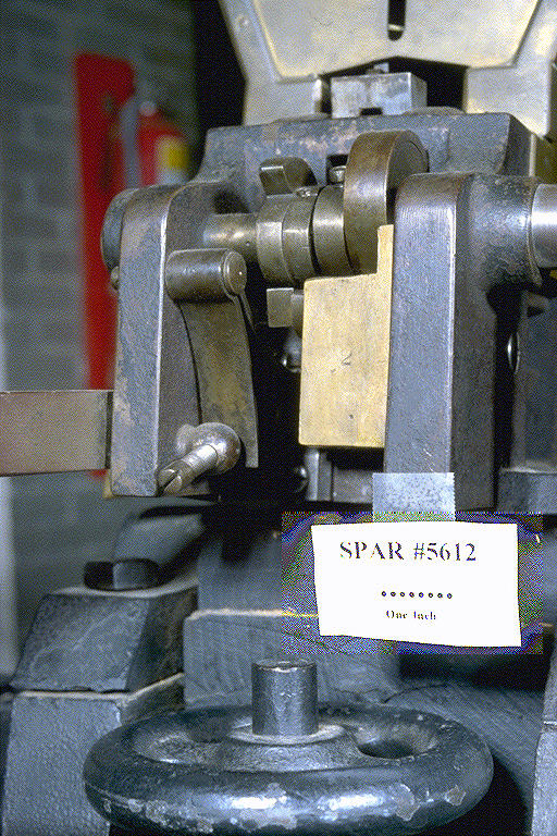 Ager "Coffee Mill" Gun